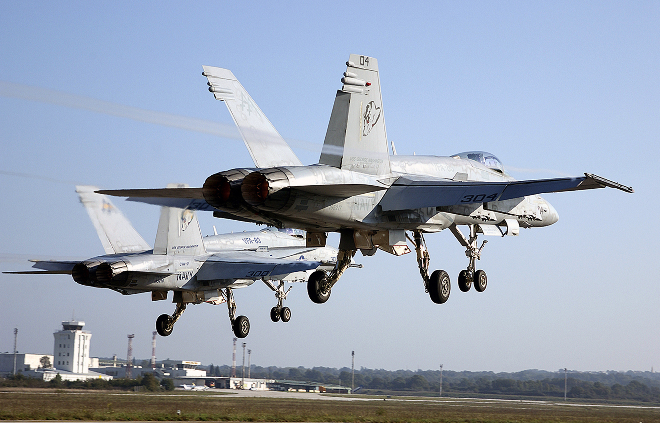 Pula, Croatia (Oct. 28, 2002) -- F/A-18 "Hornets" assigned to the "Rampagers" of Strike Fighter Squadron Eight Three (VFA-83) make a dual runway take-off while conducting multinational operations in the region. VFA-83 is part of a detachment from Carrier Air Wing Seventeen (CVW-17) embarked aboard USS George Washington (CVN 73) participating with the Croat Air Force in Joint Wings 2002. Joint Wings is a multinational exercise between the U.S. and the Croat Air Force designed to practice intelligence gathering. George Washington is homeported in Norfolk, Va., and is nearing the end of a scheduled six month deployment after completing combat missions in support of Operations Enduring Freedom and Southern Watch. U.S. Navy photo by Capt. Dana Potts. (RELEASED)